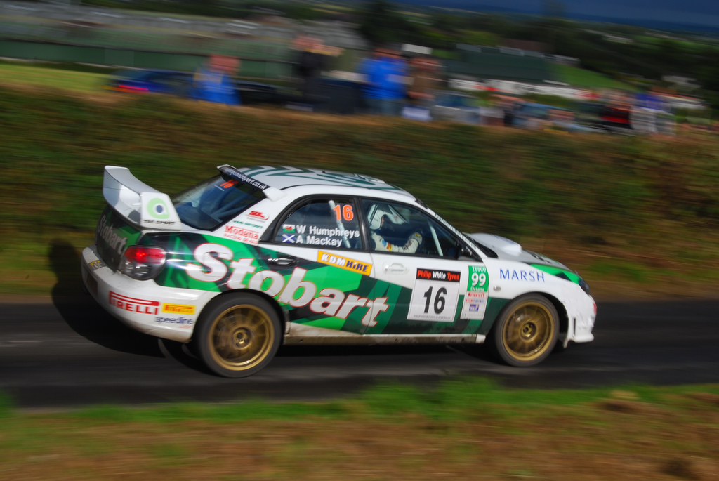 Subaru Impreza N12 - Class N4 Driver: Wyn Humphreys Co-driver: Ally Mackay